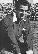 Ernesto Grillo during his time as an Independiente player